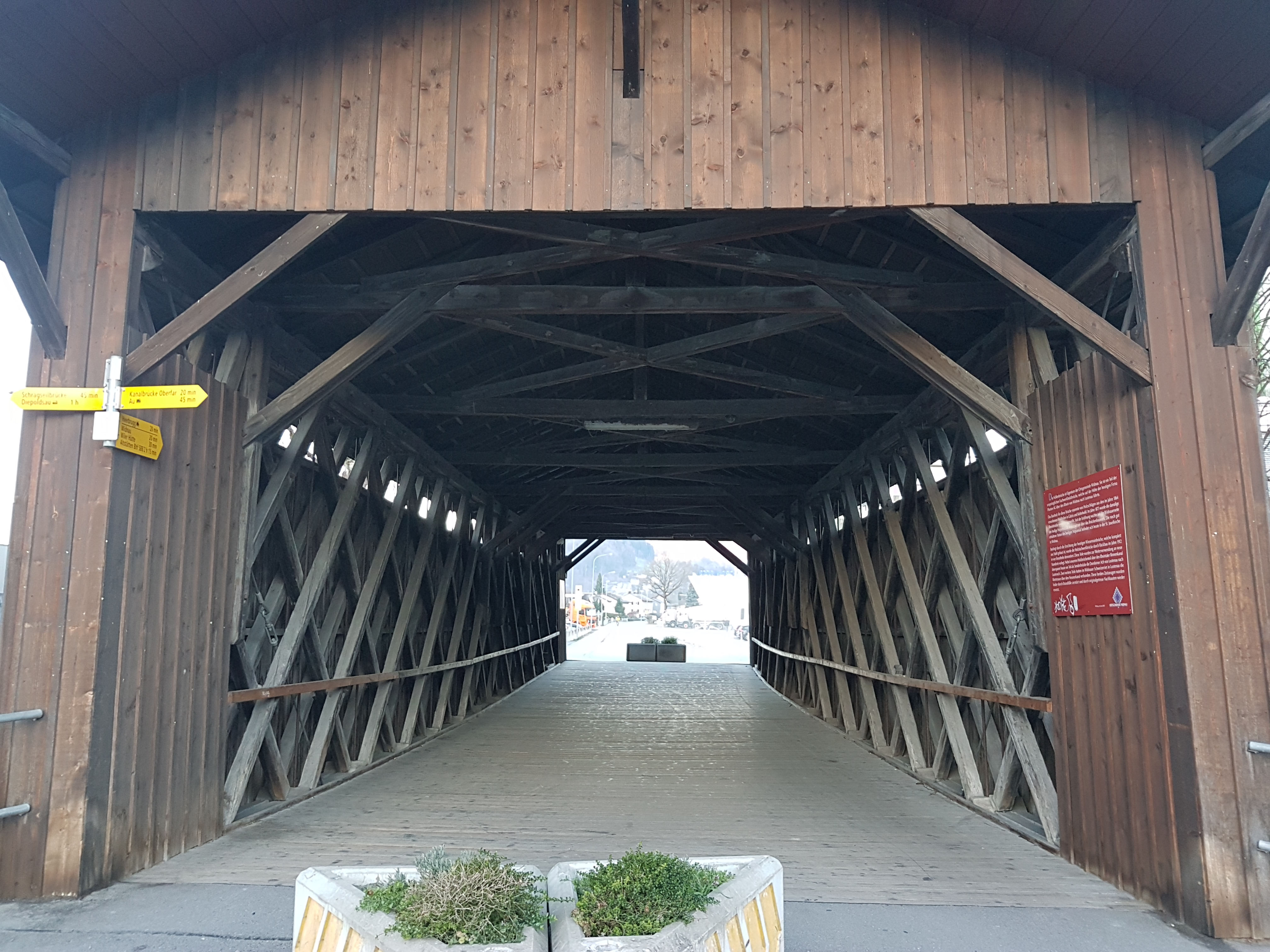 Nöllenbrücke (bridge) in Widnau, St. Gallen, Switzerland. Part of the former old Rhine bridge and built here in 1915 over the Rhine Valley inner canal.